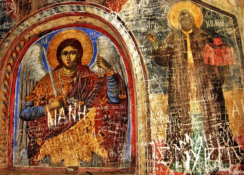 Frescos from Saint Nikanor Church in Zavordas Monastery